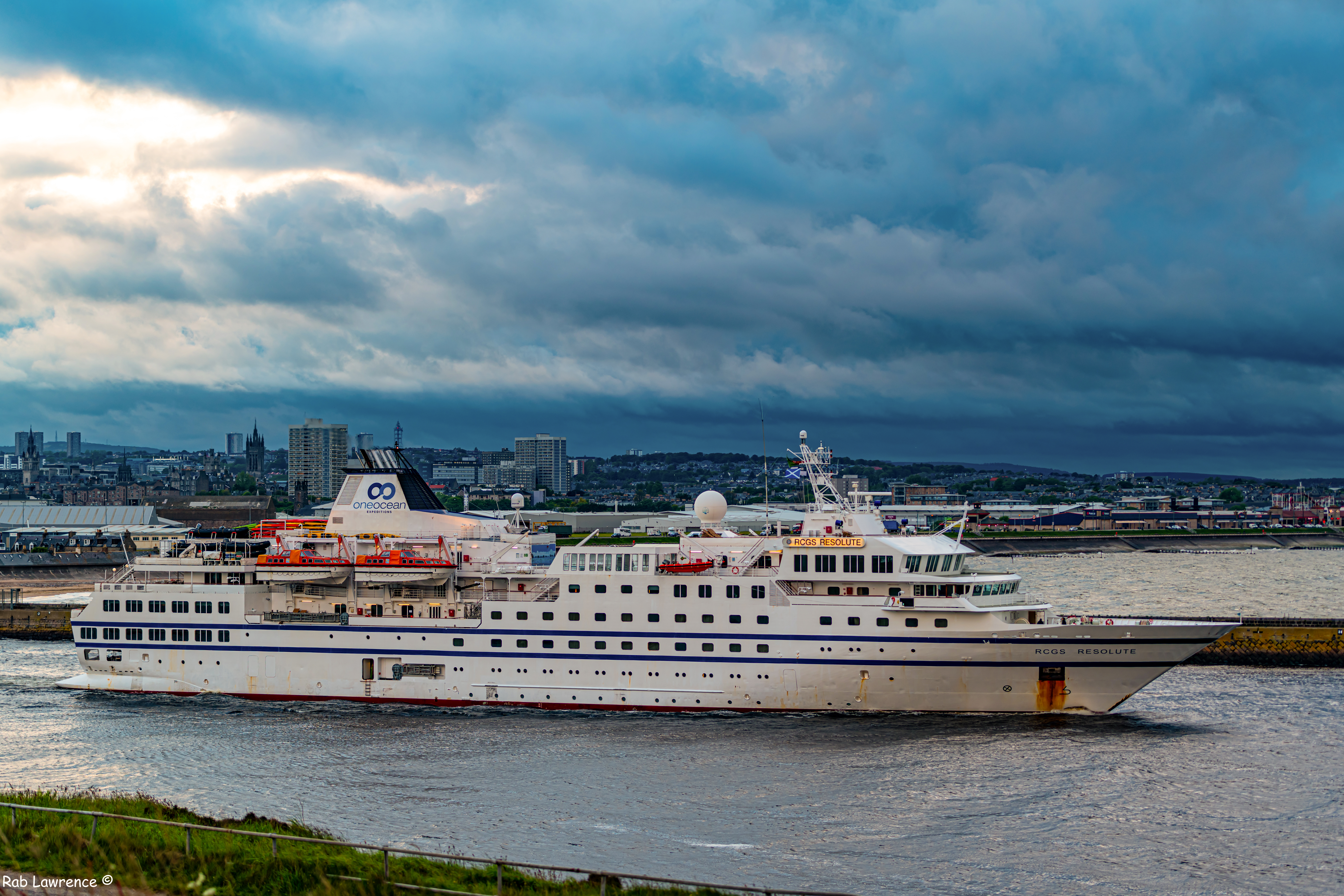 RCGS Resolute in Aberdeen, Scotland.